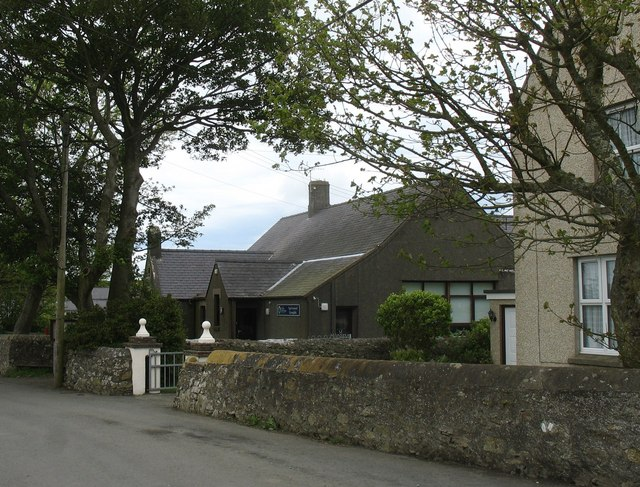 Ysgol Gymuned Carreglefn Community School. This small school has around 35 pupils, some 75% of which have Welsh as their first language. The school building was constructed by the Anglesey Trading Company jointly owned by Owen Thomas (later Brig-Gen Owen Thomas) a local farmer and businessman using bricks from his Cemaes brickworks SH3793 1246729